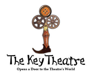 The Key Theatre's Logo in English. Graphic Design: Andrey Bashkin.